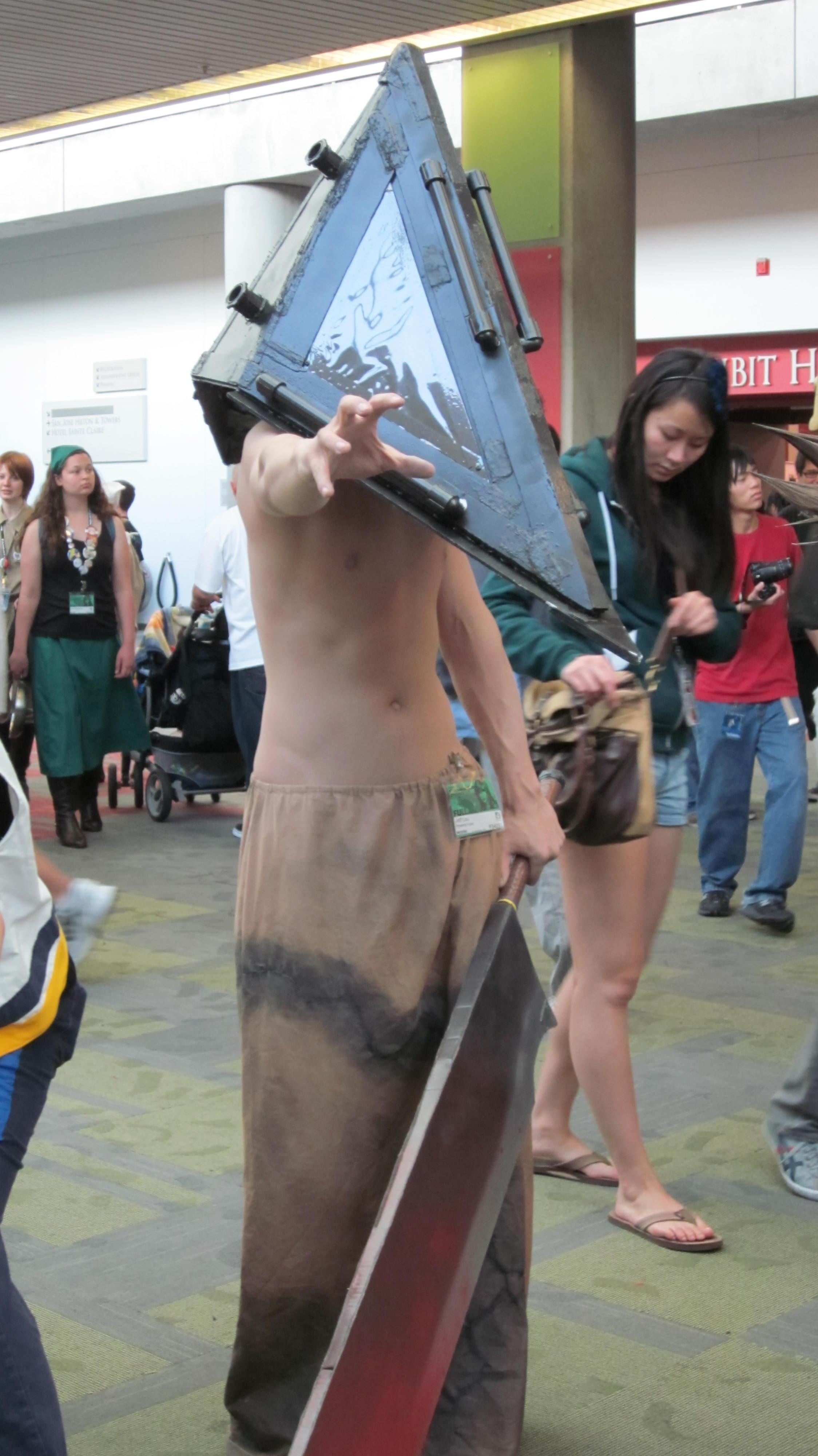 A cosplayer portraying Pyramid Head from Silent Hill at FanimeCon 2010 in San Jose, California.